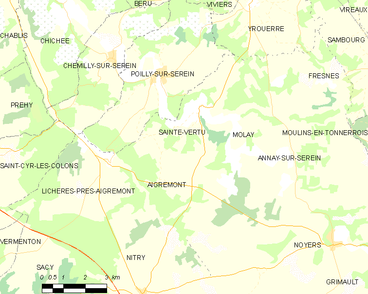 Map of French municipality Sainte-Vertu